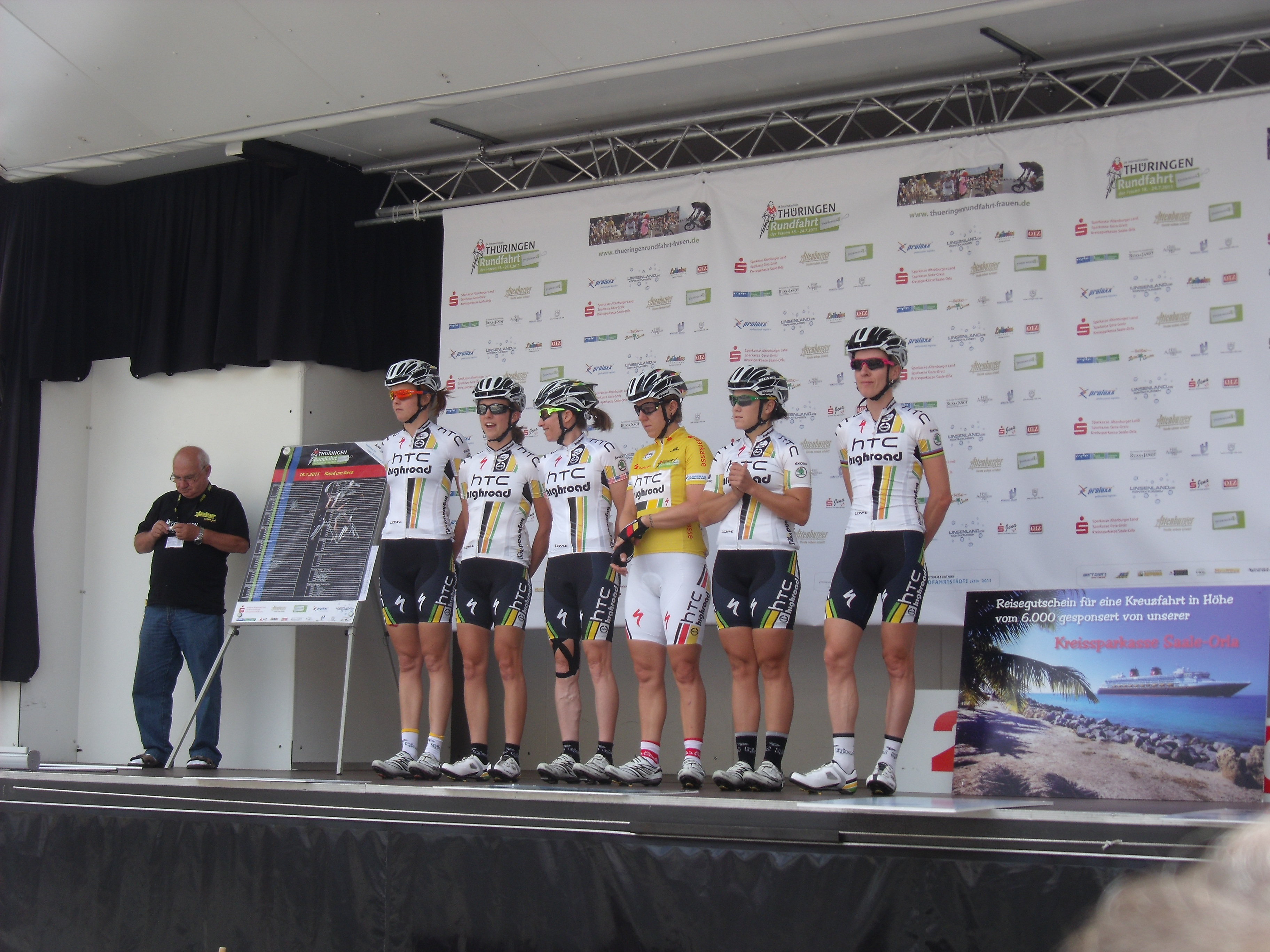 1st stage "Around Gera" of the 2011 Internationale Thüringen-Rundfahrt der Frauen (International Women's Tour of Thuringia): Presentation of the teams at the market square in Gera – Team HTC Highroad Women